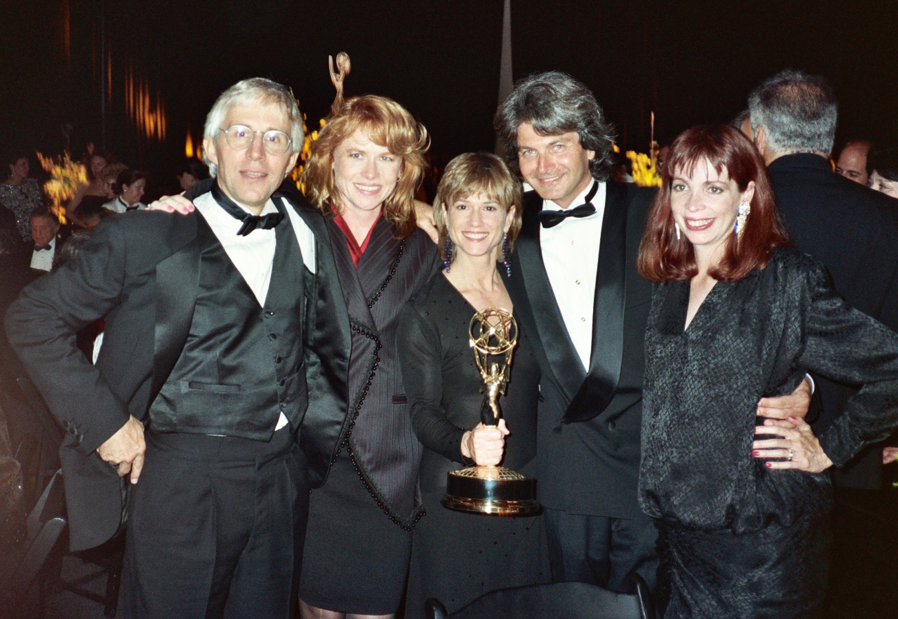 Photo taken at the 41st Emmy Awards 9/17/89 - Permission granted to copy, publish or post but please credit "photo by Alan Light" if you can